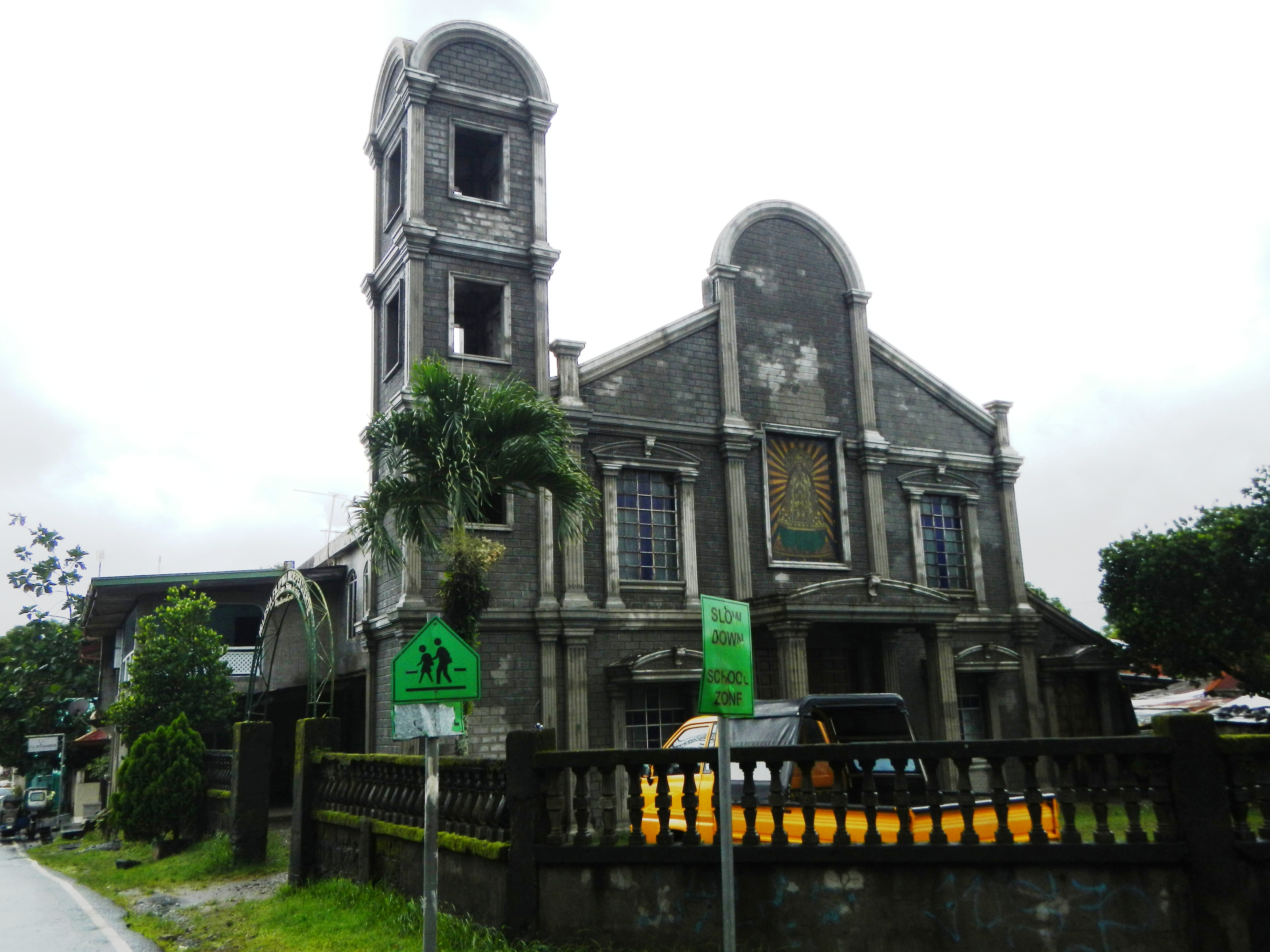 UploadWizard photos --- (general description) of landmarks, heritage, culture, comprehensive, photography) of – Philippine Independent Church, [1], Magallanes Western Cavite Institute, Inc., De Guia Academy of Magallanes, -- town proper of -- Magallanes, Cavite [2] [3] (a 5th class municipality in the province of Cavite, [4] Philippines. According to the 2007 census, it has a population of 18,890 people. The town is named after Ferdinand Magellan. [5] Coordinates: 14°10'28"N 120°44'20"E politically subdivided into 16 barangays; the patron saint of the town, Nuestra Señora de Guia[6].[7] Geographical location: Cavite, Region 4, Philippines, Asia Geographical coordinates: 14° 11' 18" North, 120° 45' 27" East Website Cavite) - Anda St. cor. De Guia St., Barangay Dos - Magallanes Town Hall, Magallanes Plaza, and the Nuestra Señora de Guia Parish Church of Magallanes.